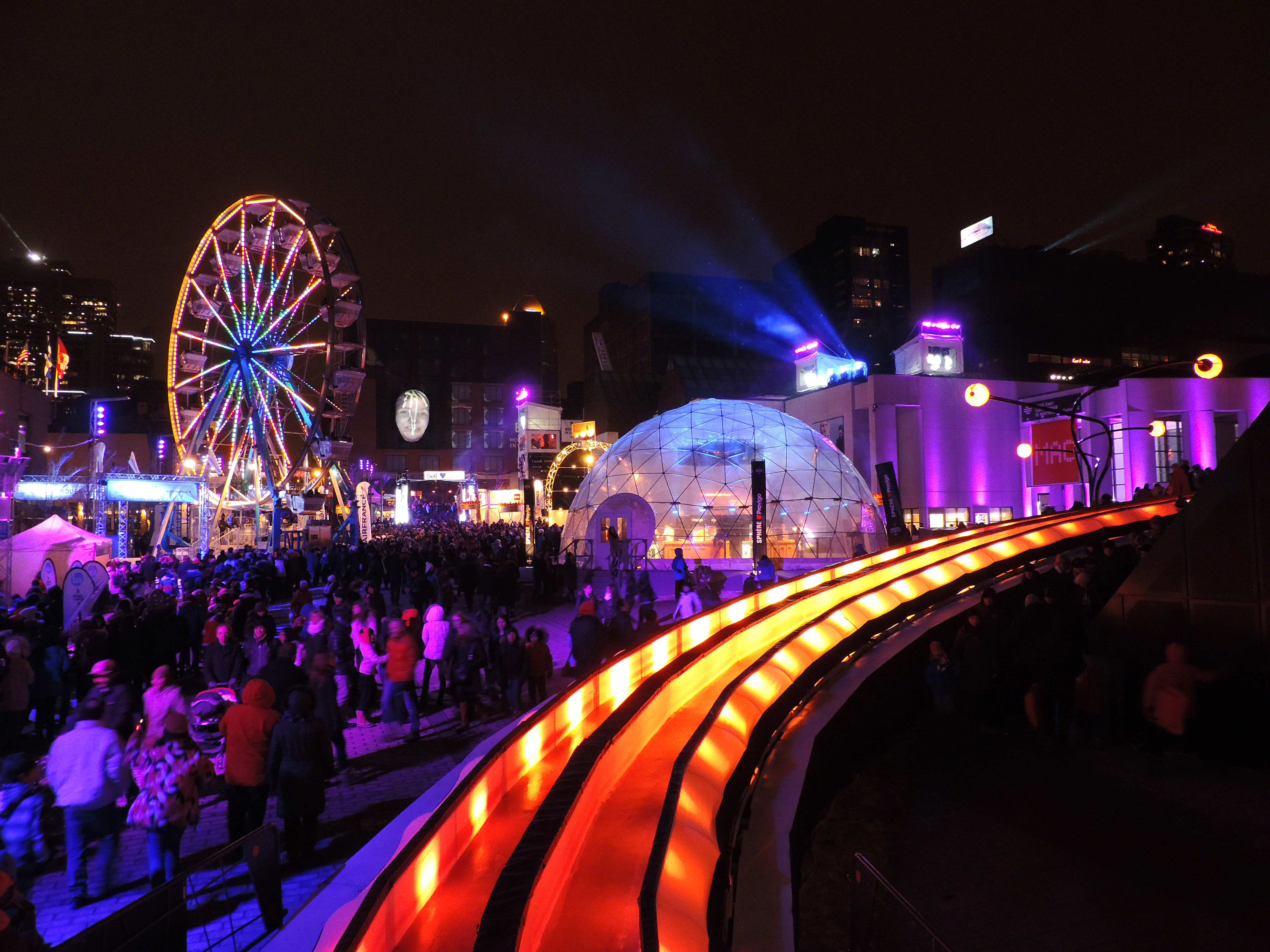 Nuit Blanche during Montréal en lumière festival in Quartier des spectacles in Montreal on March 1 2014.